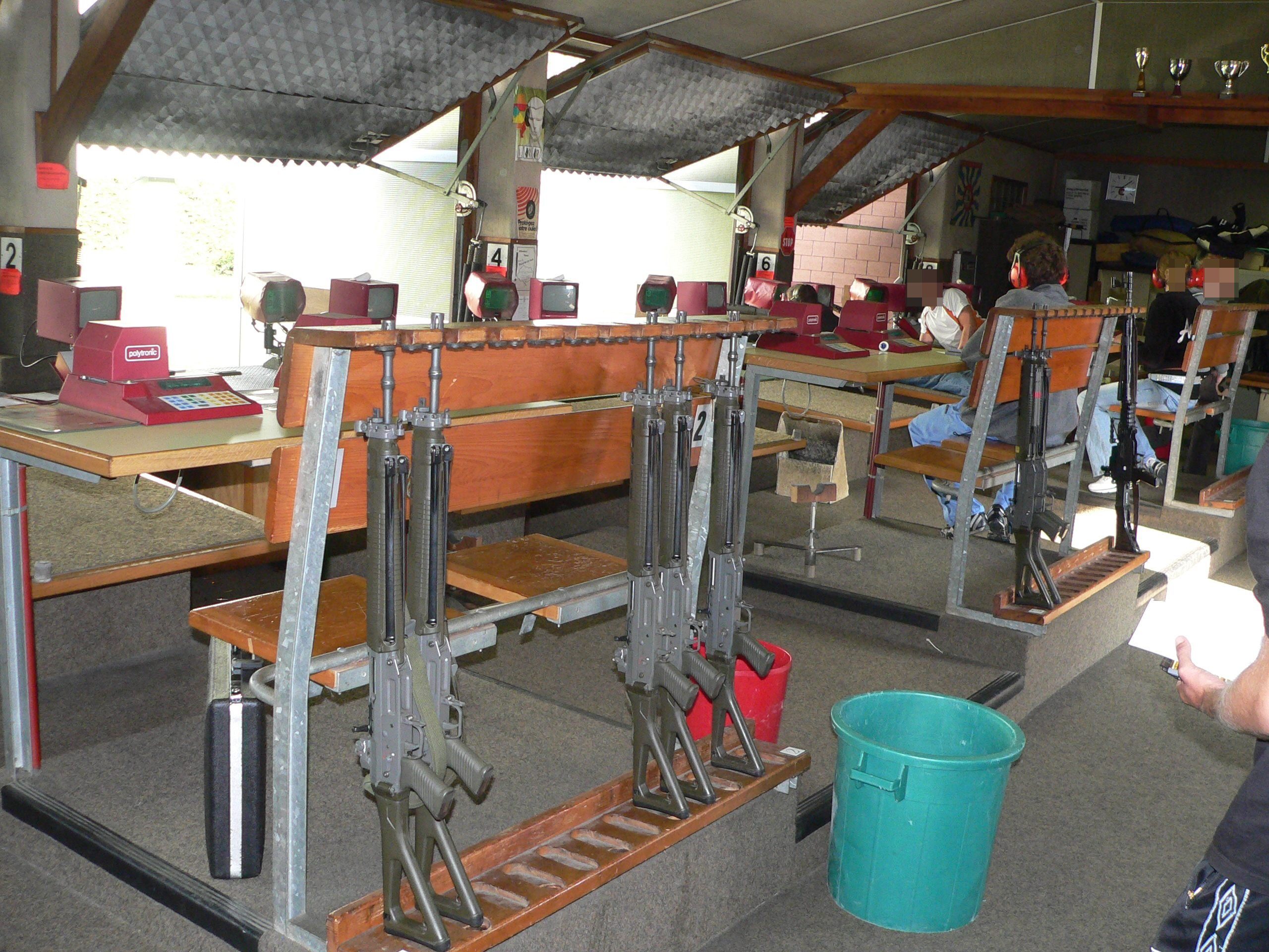 Shooting range of a Swiss shooting society. SIG SG 550 assault rifles are shown in the rifle rack.